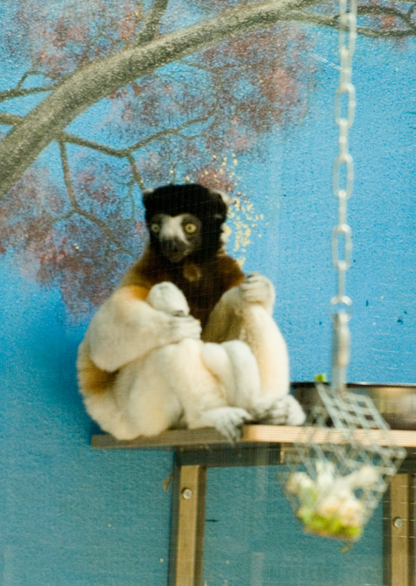 Propithecus coronatus